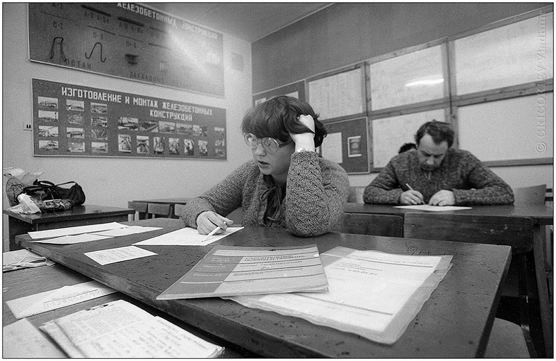 Students of Faculty of construction at the exam.